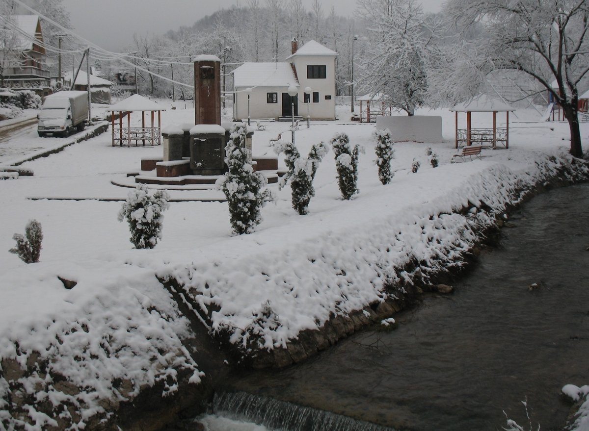 WWII memorial in Donji Dušnik in Gadžin Han municipality,Serbia.